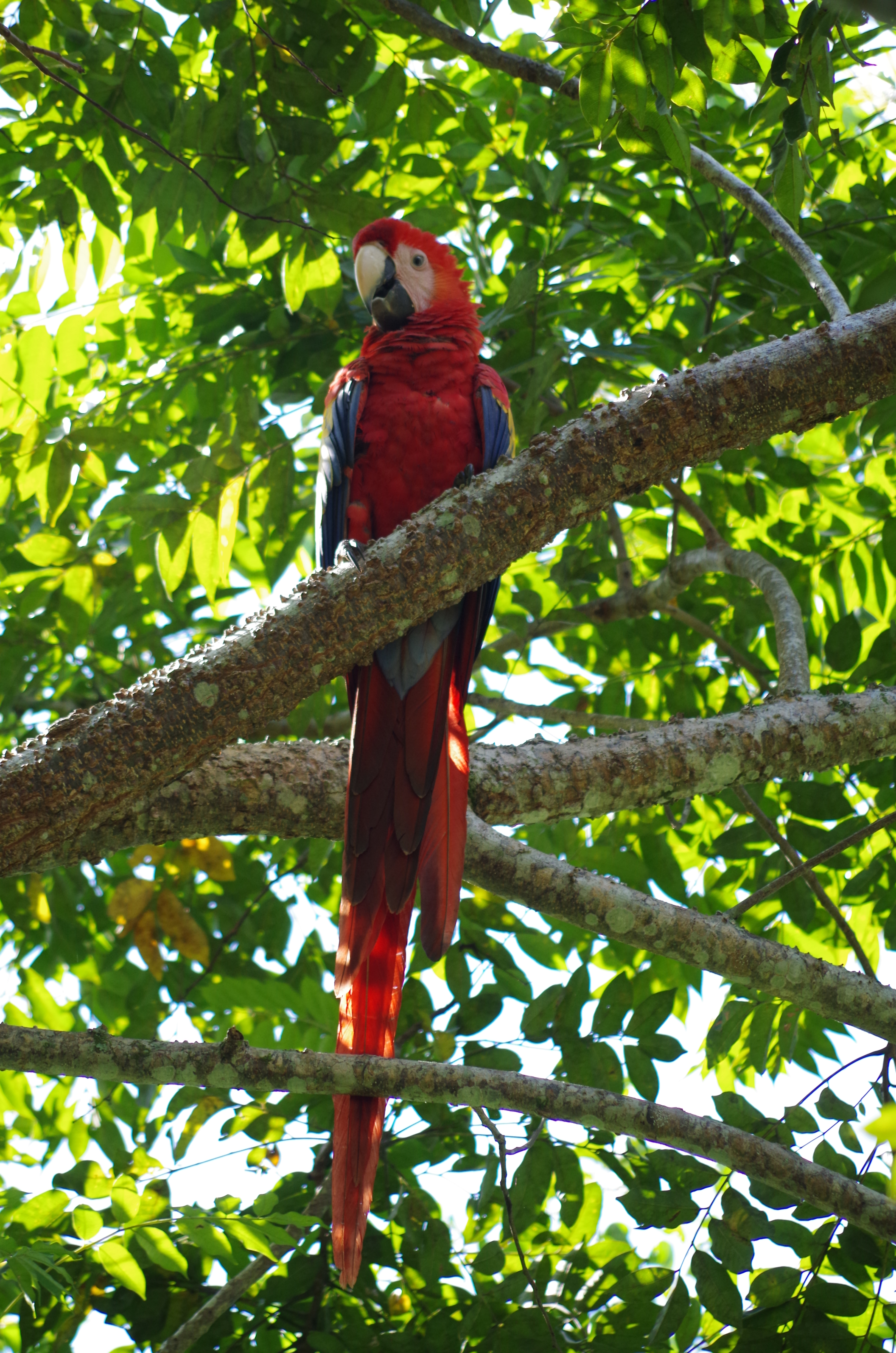 A scarlet macaw (Ara macao) perched on a tree branch in Lacandon Jungle in the state of Chiapas in Mexico